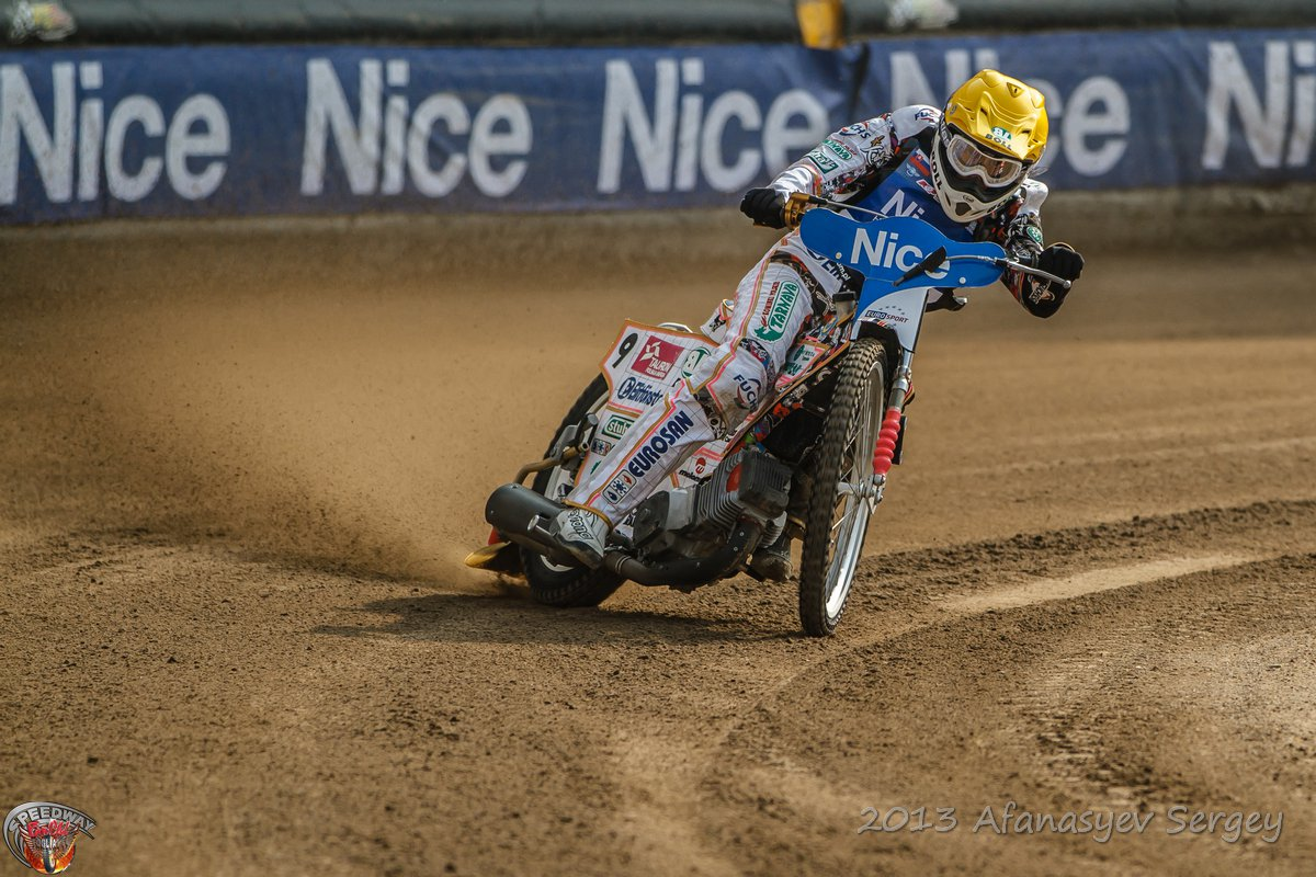 Martin Vaculik. 2nd final of Individual Speedway European Championship 2013. Togliatti, Russia